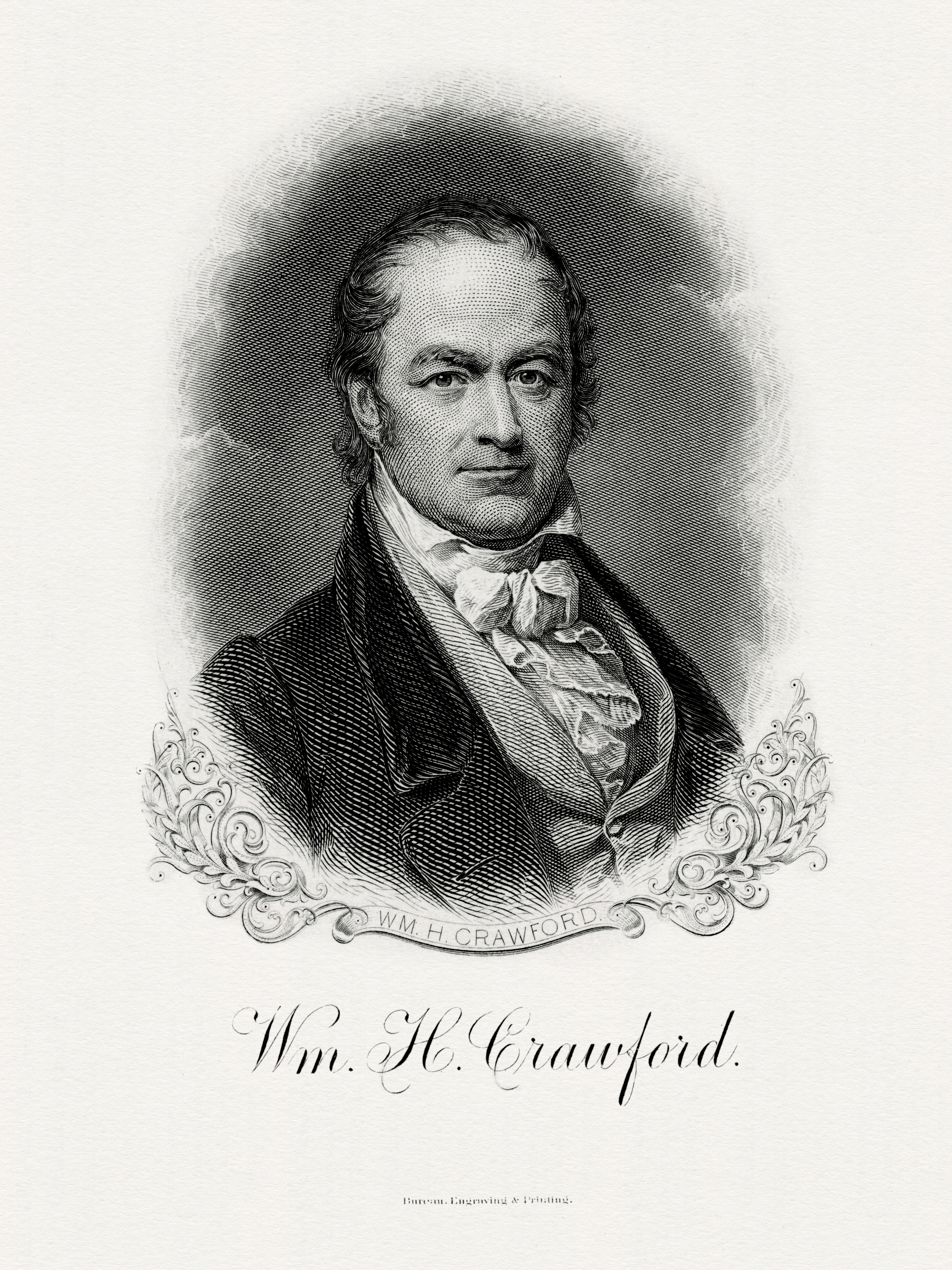 Engraved BEP portrait of U.S. Secretary of the Treasury William H. Crawford